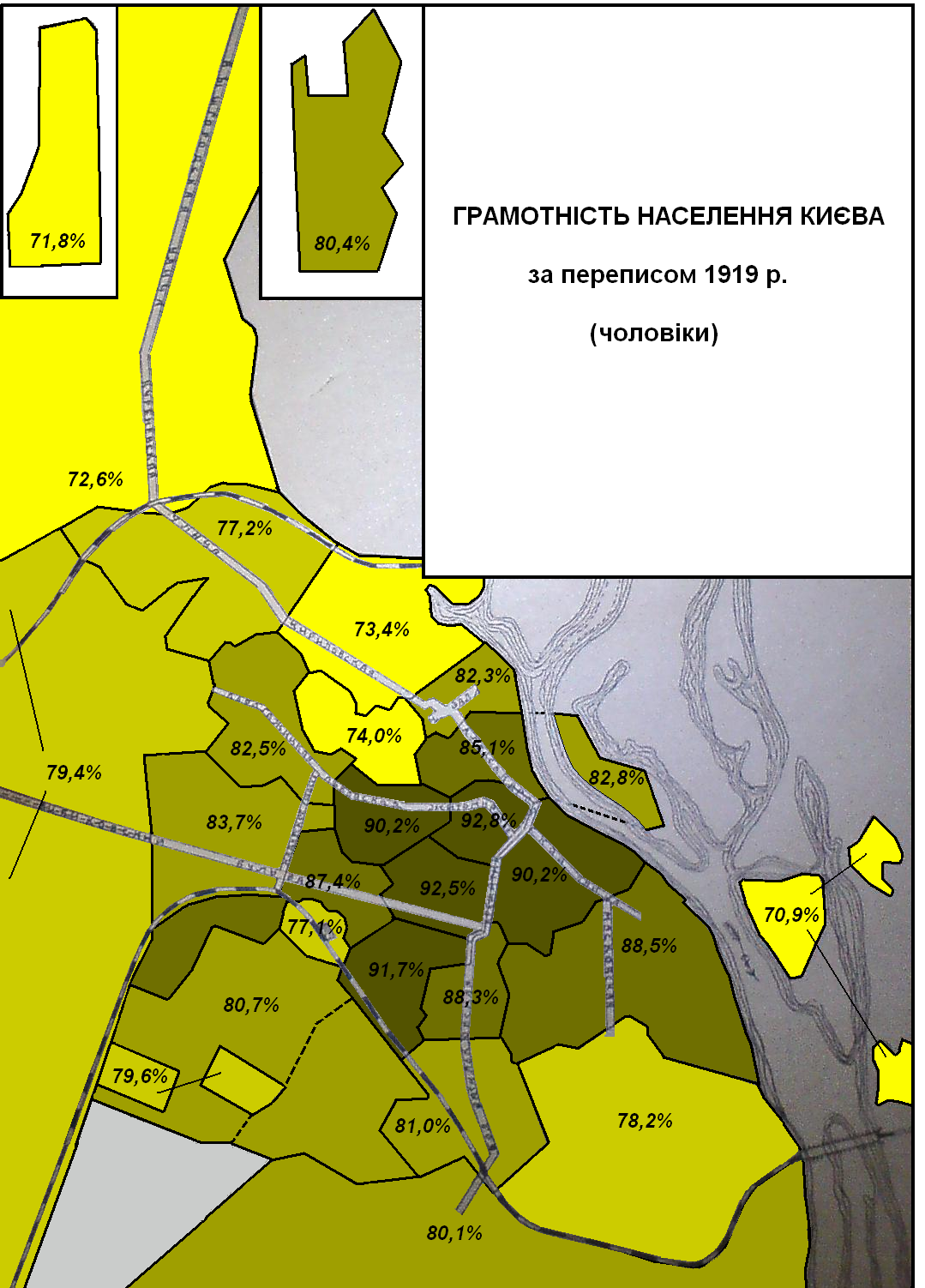 Literacy rate in districts of Kyiv according to 1919 census (men)